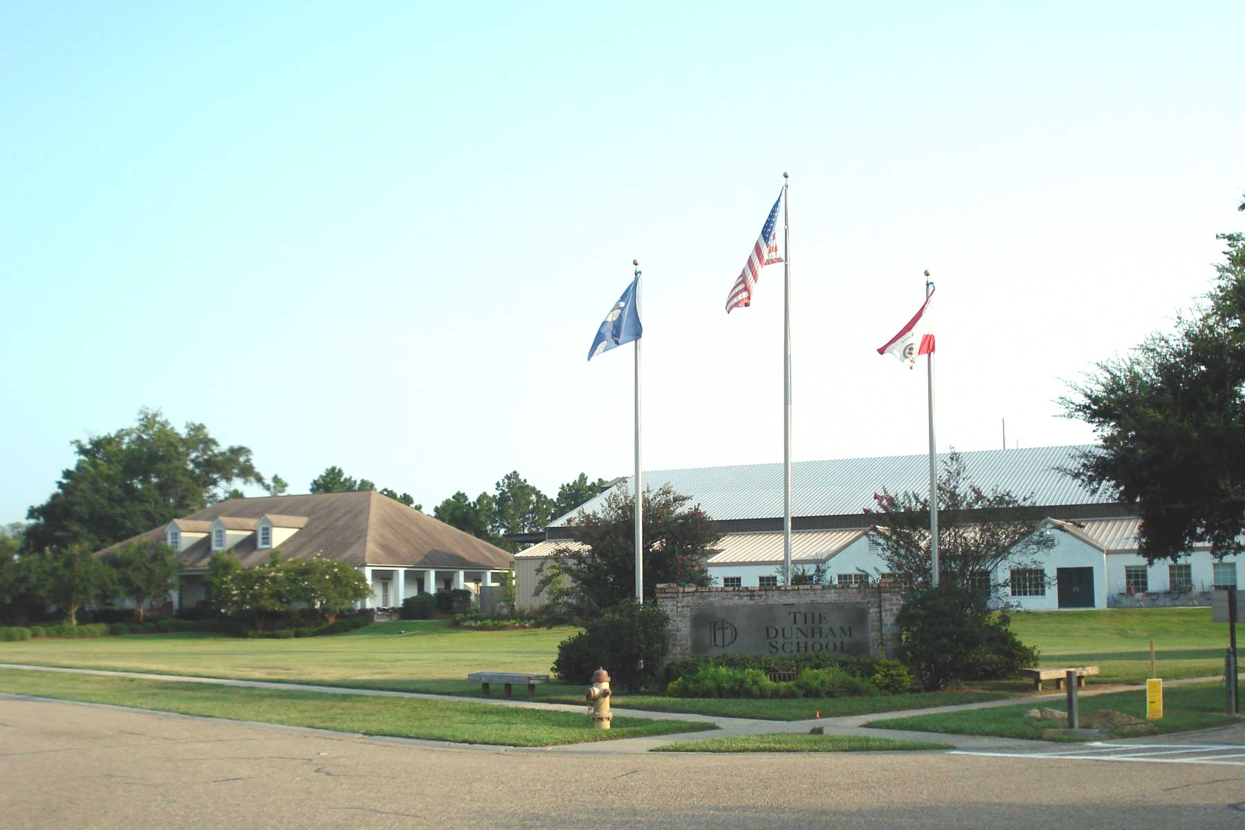 The Dunham School, Baton Rouge, Louisiana